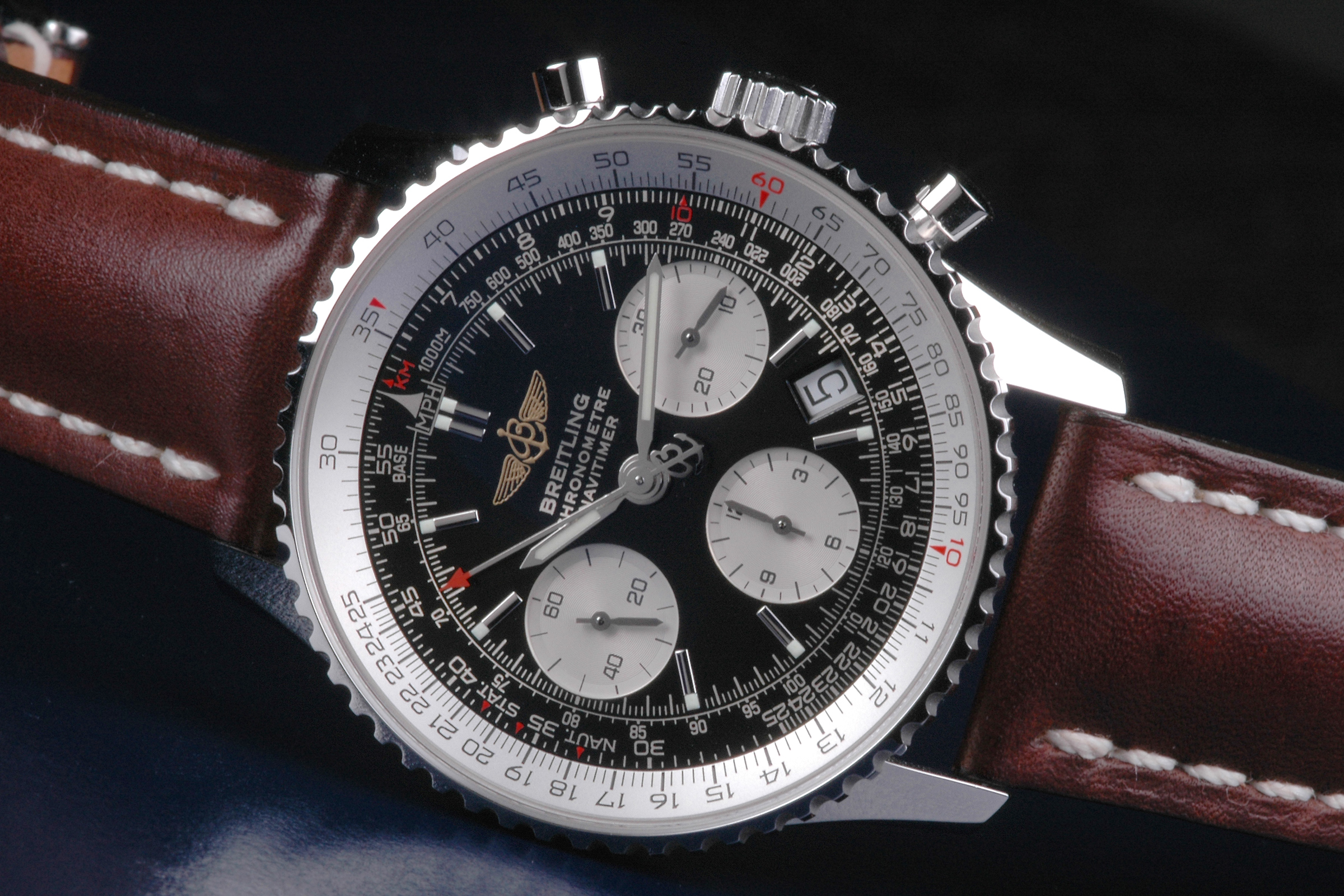 Breitling Navitimer